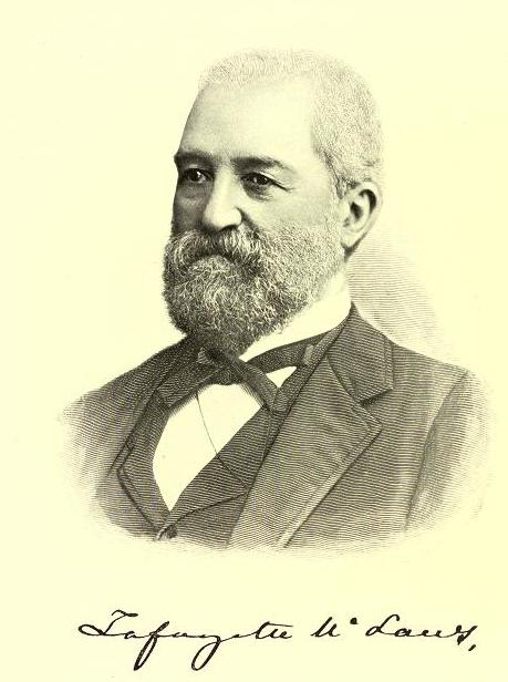 Lafayette McLaws, circa 1890s, appearing in From Manassas to Appomattox by James Longstreet (1896), p. 231.